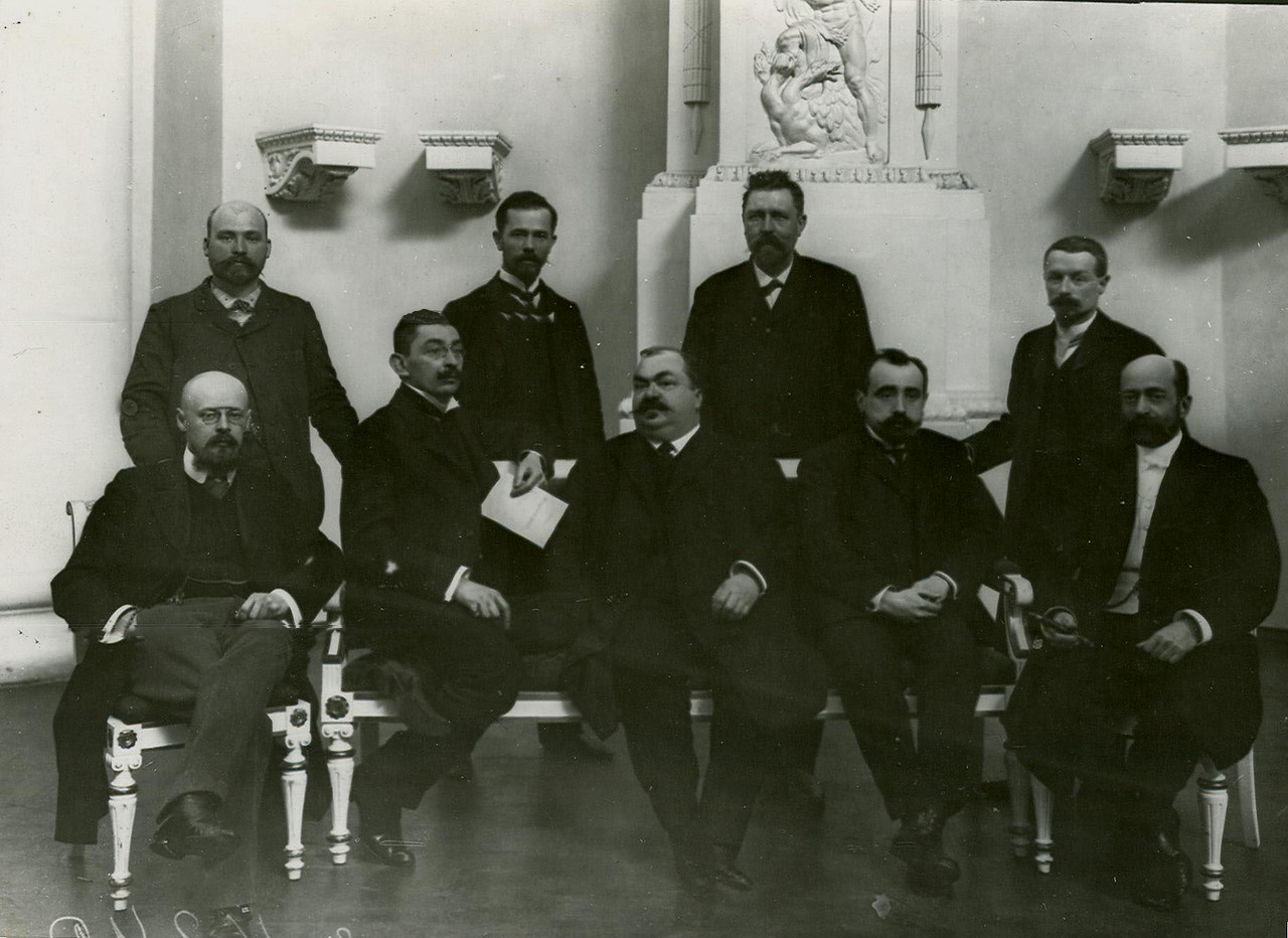 The members of the second Russian State Duma from Bessarabia Governorate, 1907. Стоят: Меленчук, Емельян Андреевич Третьяченко, Арефа Эммануилович Герстенбергер, Иоганн Готлибович Святополк-Мирский, Дмитрий Николаевич Сидят: Пуришкевич, Владимир Митрофанович Крупенский, Павел Николаевич Демянович, Антон Каэтанович Синадино, Пантелеймон Викторович Крушеван, Павел Александрович